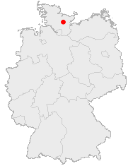 map of Bornhoeved in Schleswig-Holstein, Germany